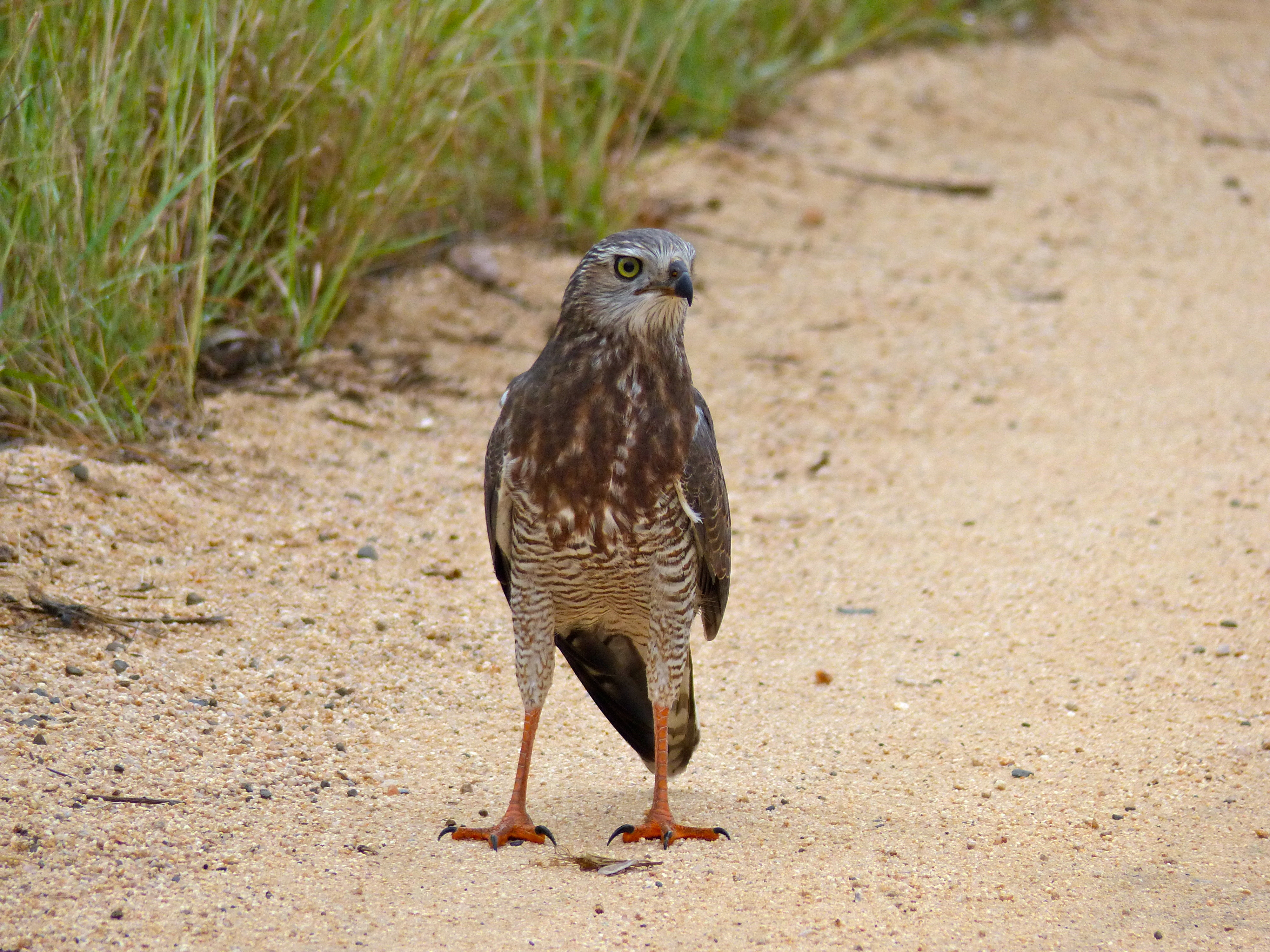 H5 Road South of Skukuza, Kruger NP, SOUTH AFRICA